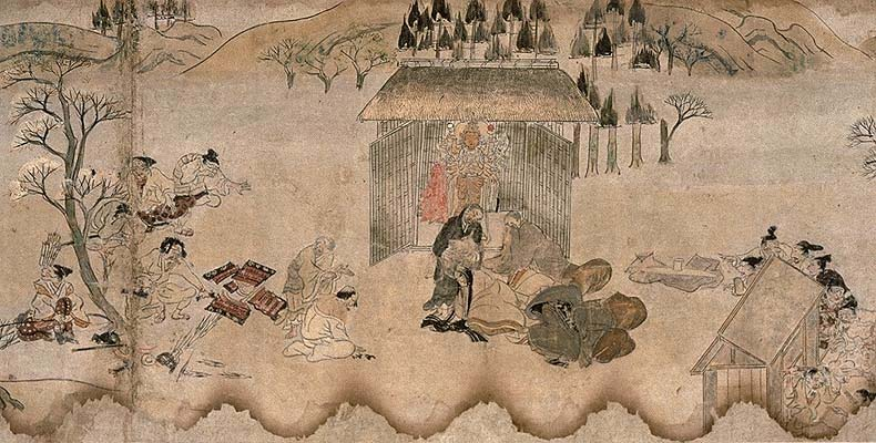 The Legendary Origins of Kokawadera (紙本著色粉河寺縁起, shihon choshoku Kokawadera engi). Handscroll (Emakimono), 30.8 cm、x 1984.2 cm. Color on paper. Located at Kokawadera (粉河寺), Kinokawa, Wakayama.